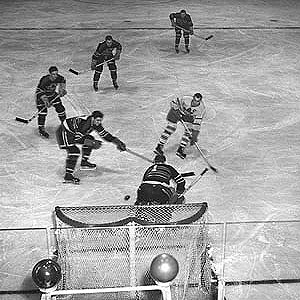 Syl Apps vs. five defenders from the Chicago Black Hawks